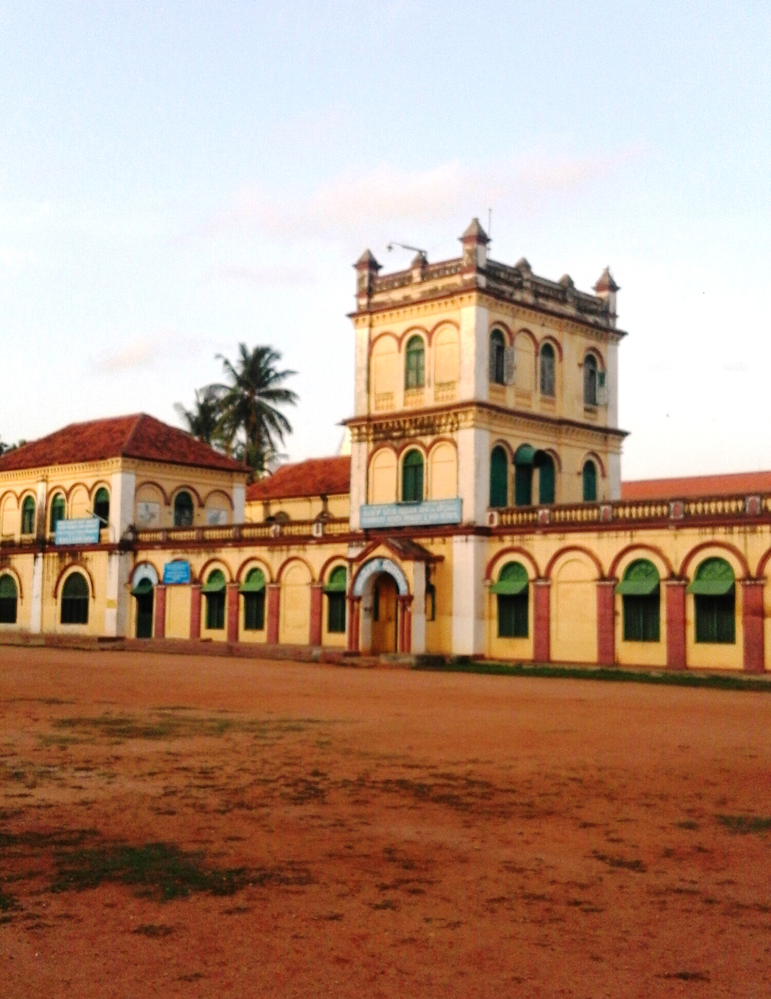 Mysore city, Mysore district, Karnataka province, India.